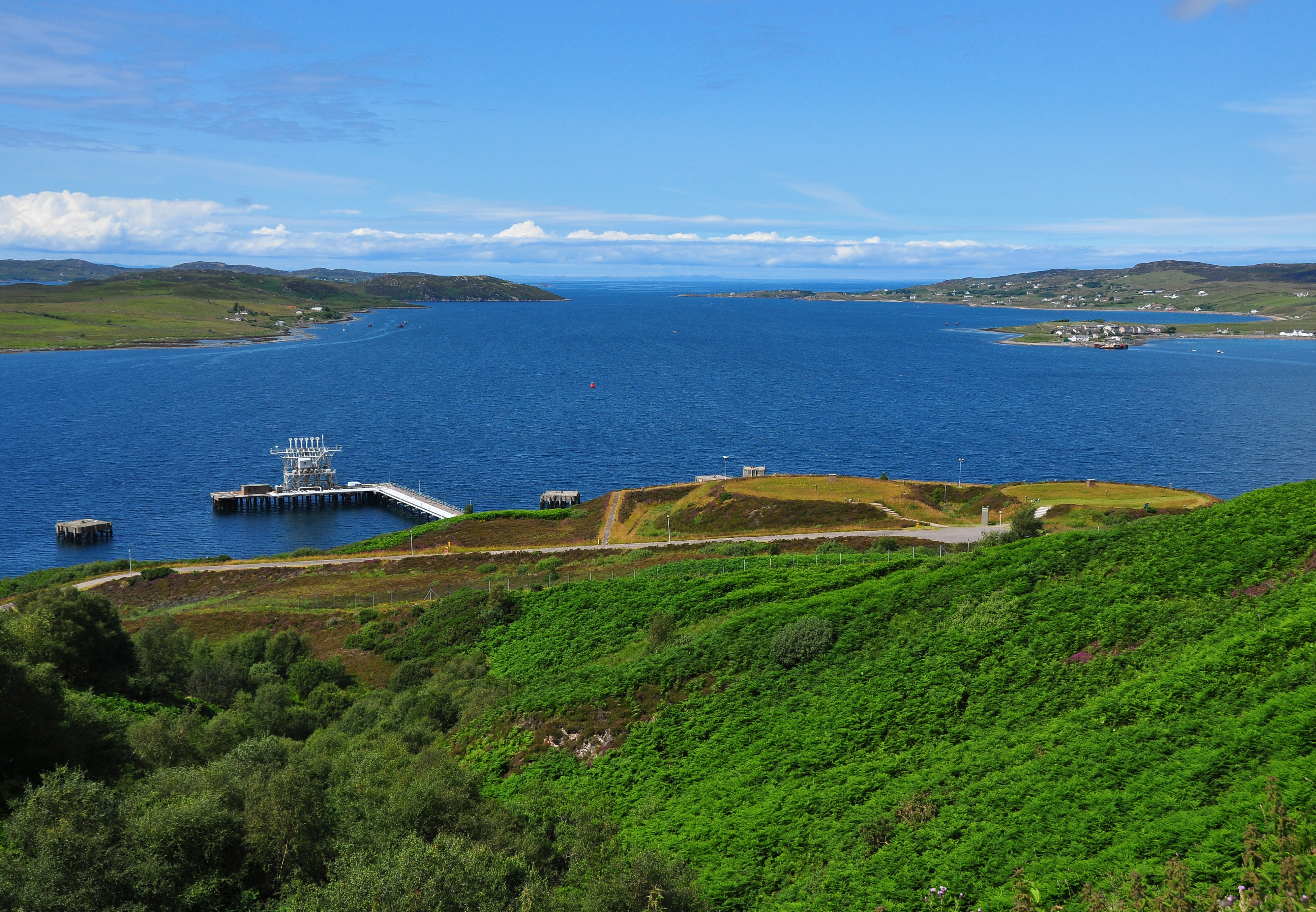 Loch Ewe, in the Scottish Highlands, from the car park overlooking the oil depot at Drumchork. The Isle of Ewe is visible on the left, and the Isle of Lewis on the horizon.